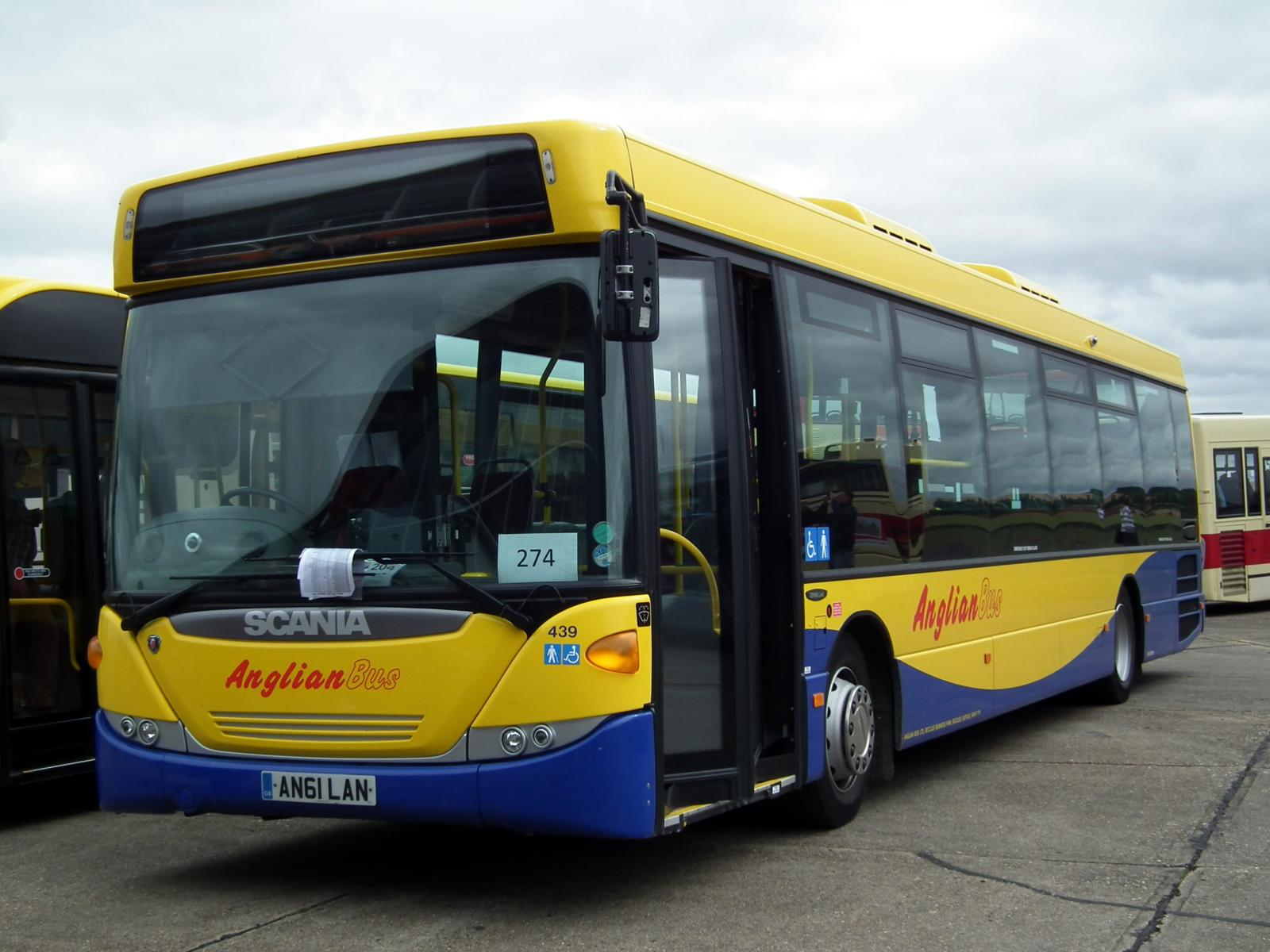 Anglian Bus 439 (AN61 LAN), a Scania OmniLink, seen at Showbus 2012.